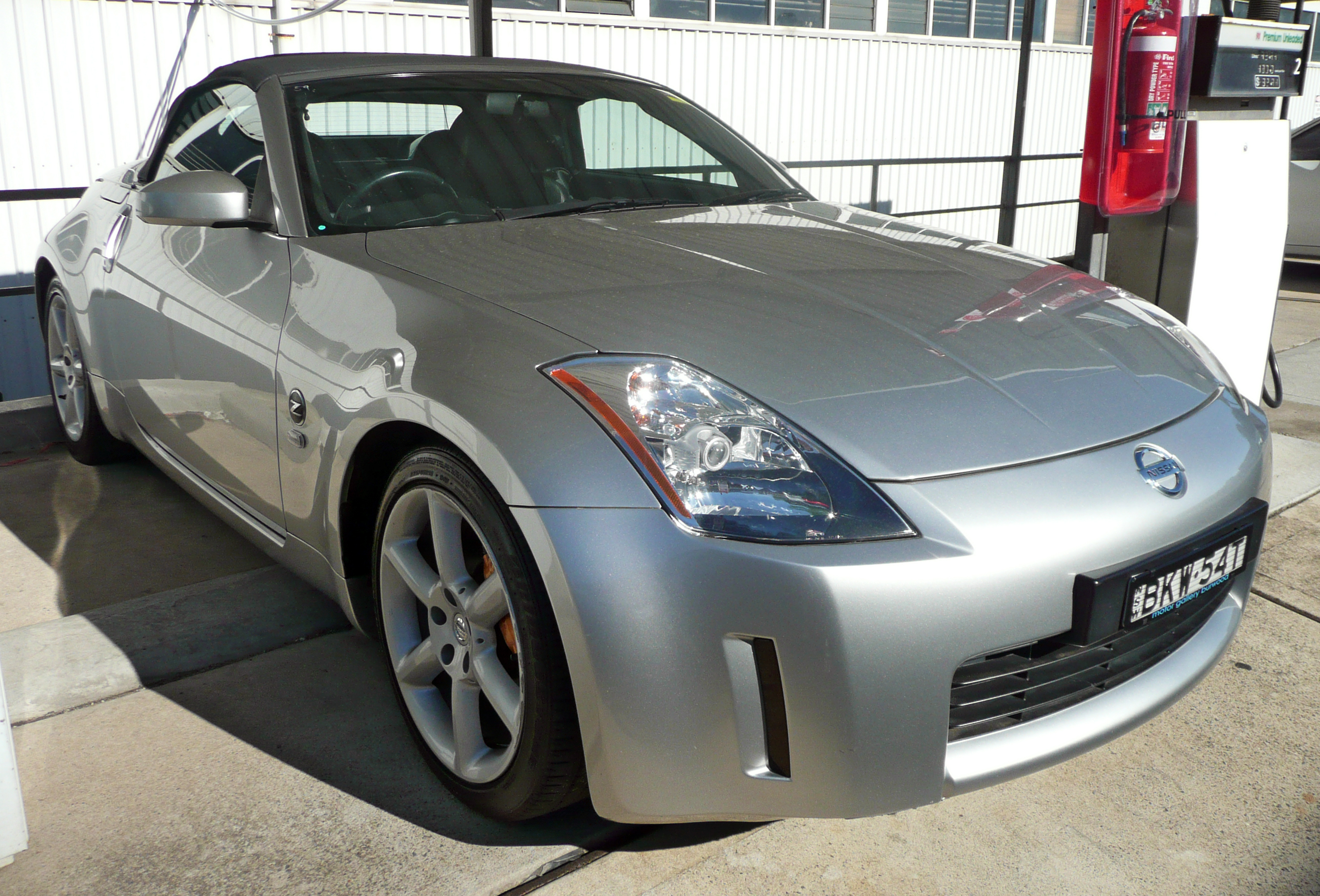 2003–2005 Nissan 350Z (Z33) roadster. Photographed in Kirrawee, New South Wales, Australia.